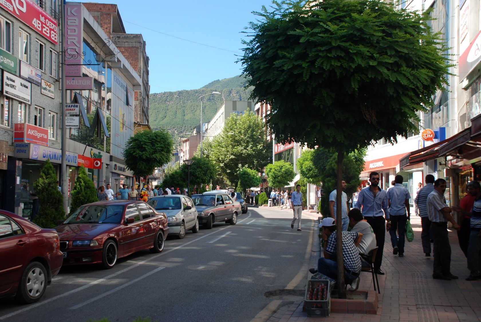 Karabük, Turkey, center